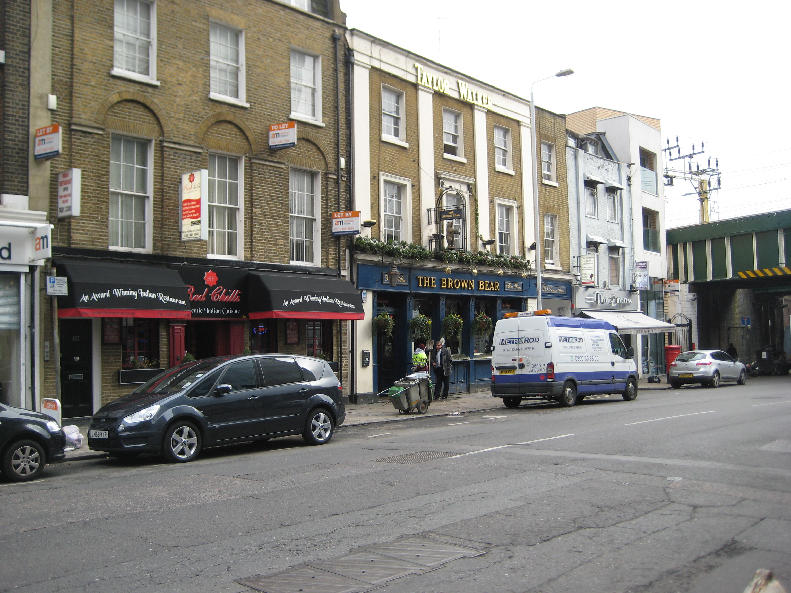 The Brown Bear The Brown Bear pub in Leman Street, sandwiched between two Asian restaurants.